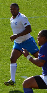 Match between Samoa and Namibia during 2011 Rugby World Cup in New Zealand.